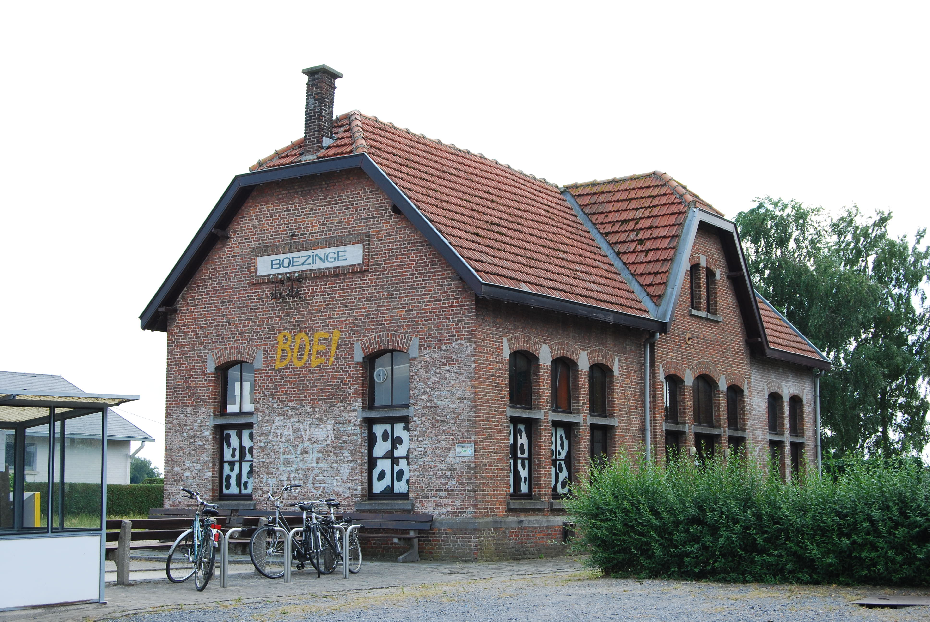 Old Station from Boezinge